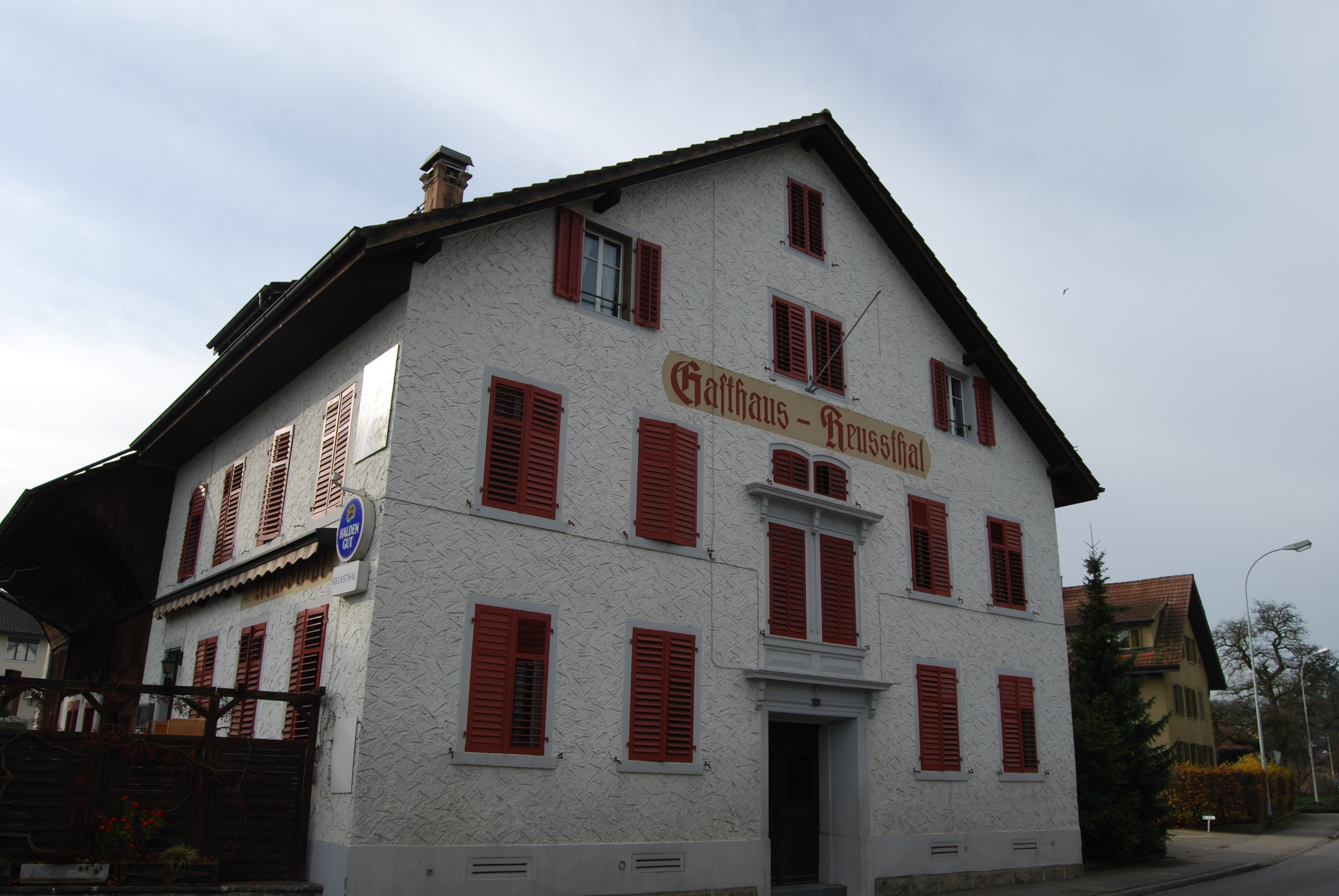 Fischbach-Göslikon, canton of Aargau, SwitzerlandEsperanto: Fischbach-Göslikon, Kantono Argovio, Svislando